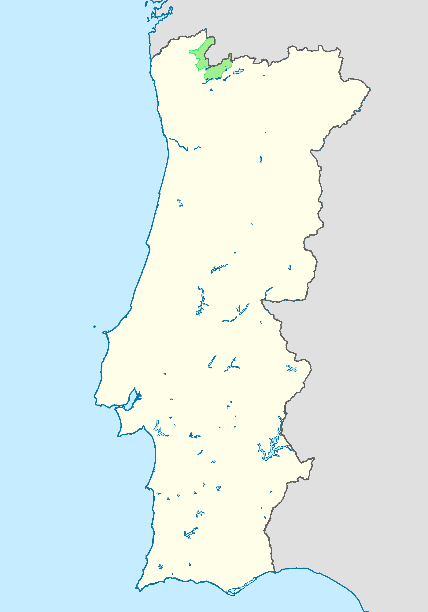 Location of Peneda-Gerês National Park